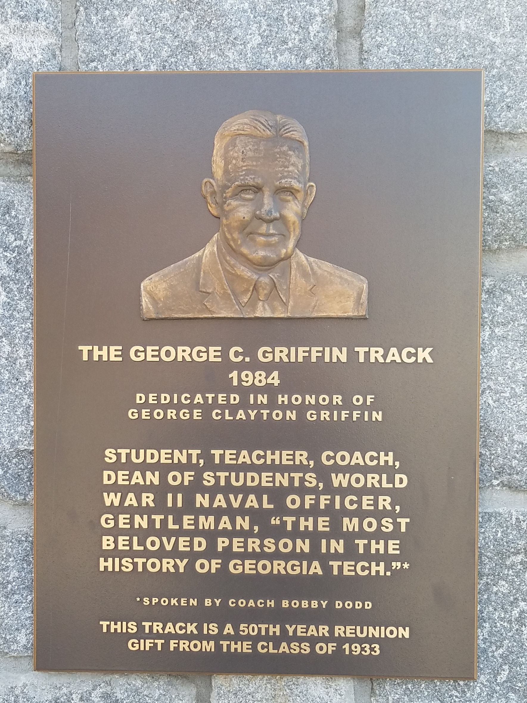 Plaque for the George C. Griffin Track at the Georgia Institute of Technology.